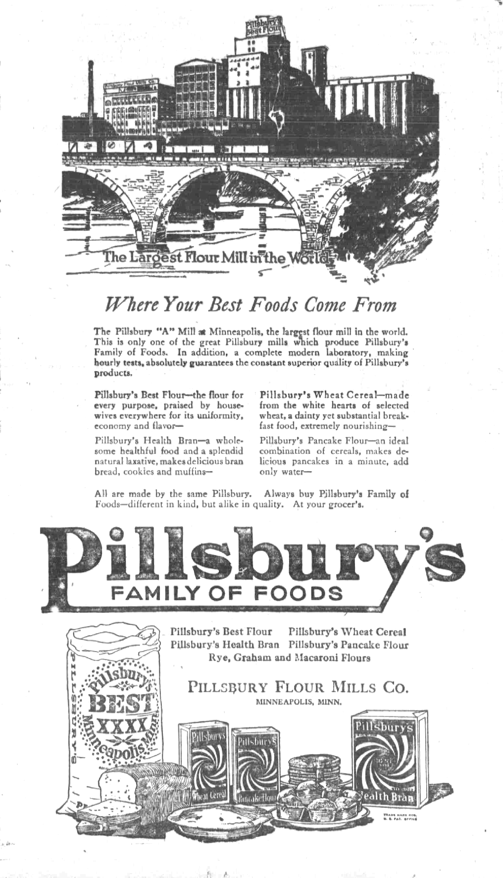 1920 newspaper ad for Pillsbury, showing the A Mill and various food products.